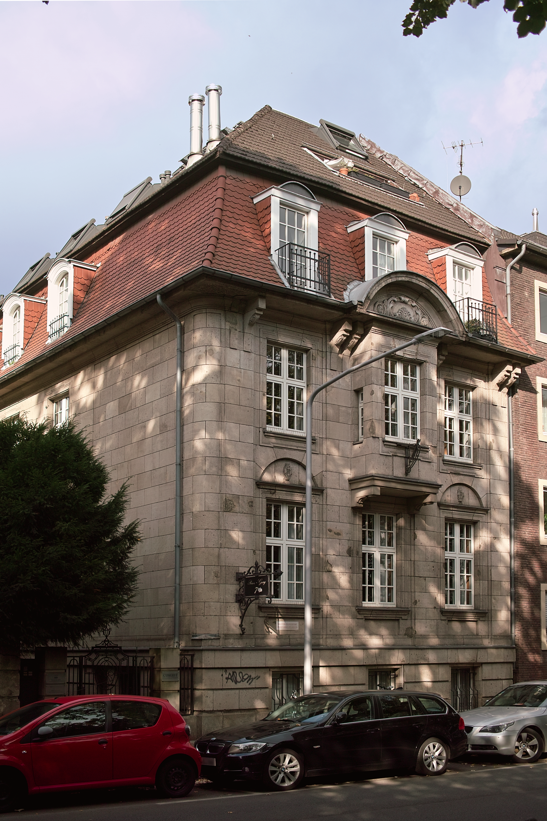 This is a photograph of an architectural monument., no. 642